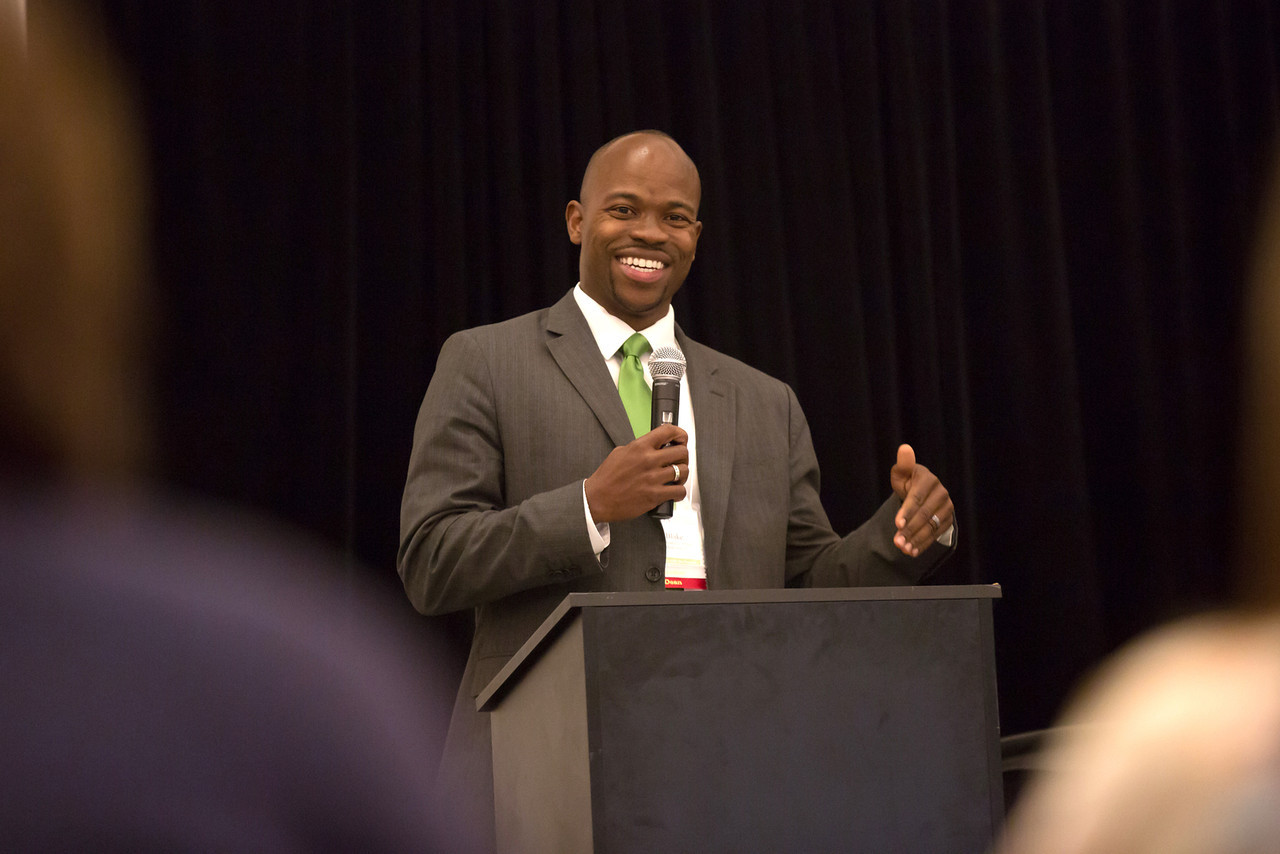 Picture of Brian presenting at University of Miami SEEDs Event.